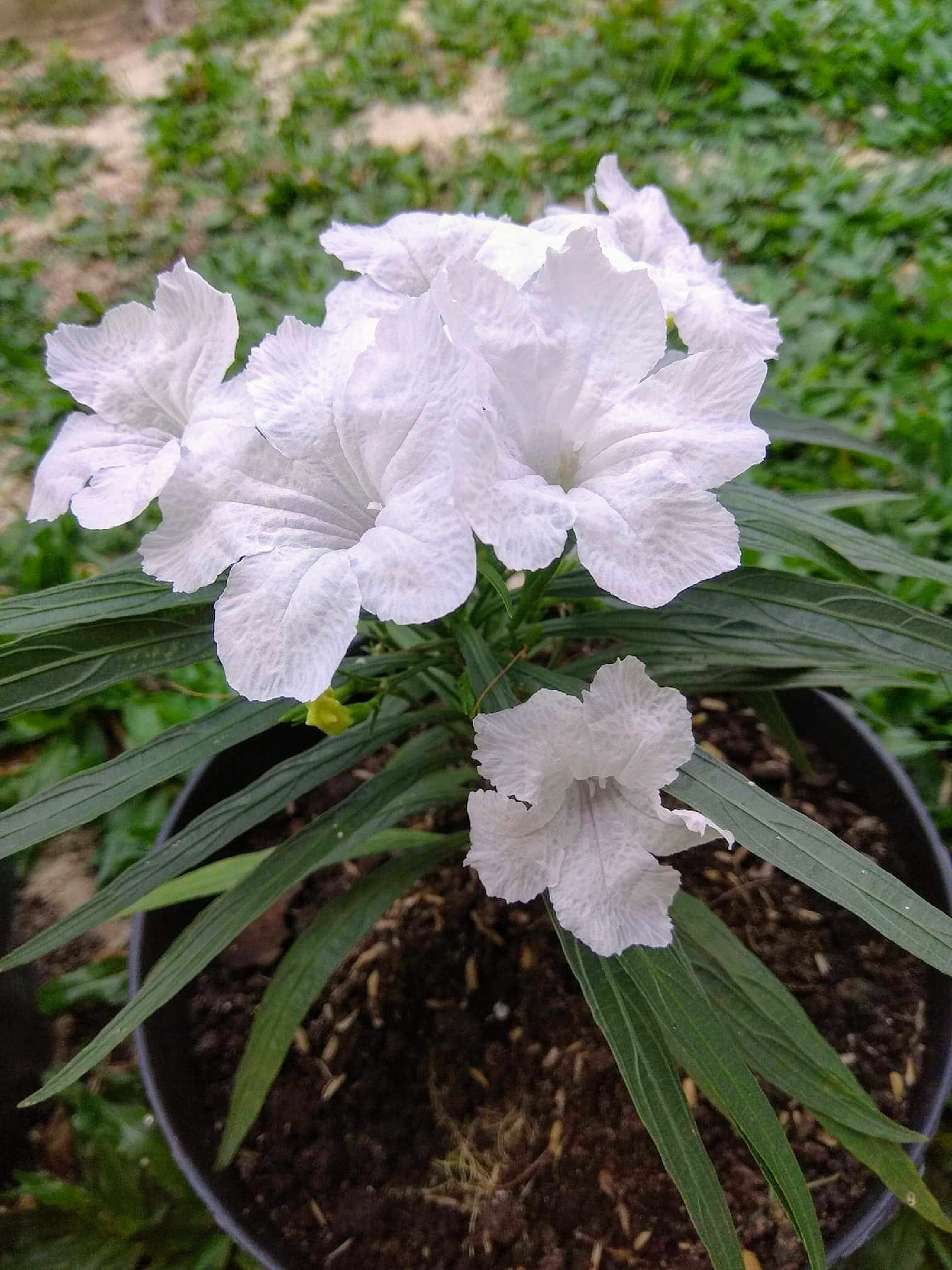 White ruellia